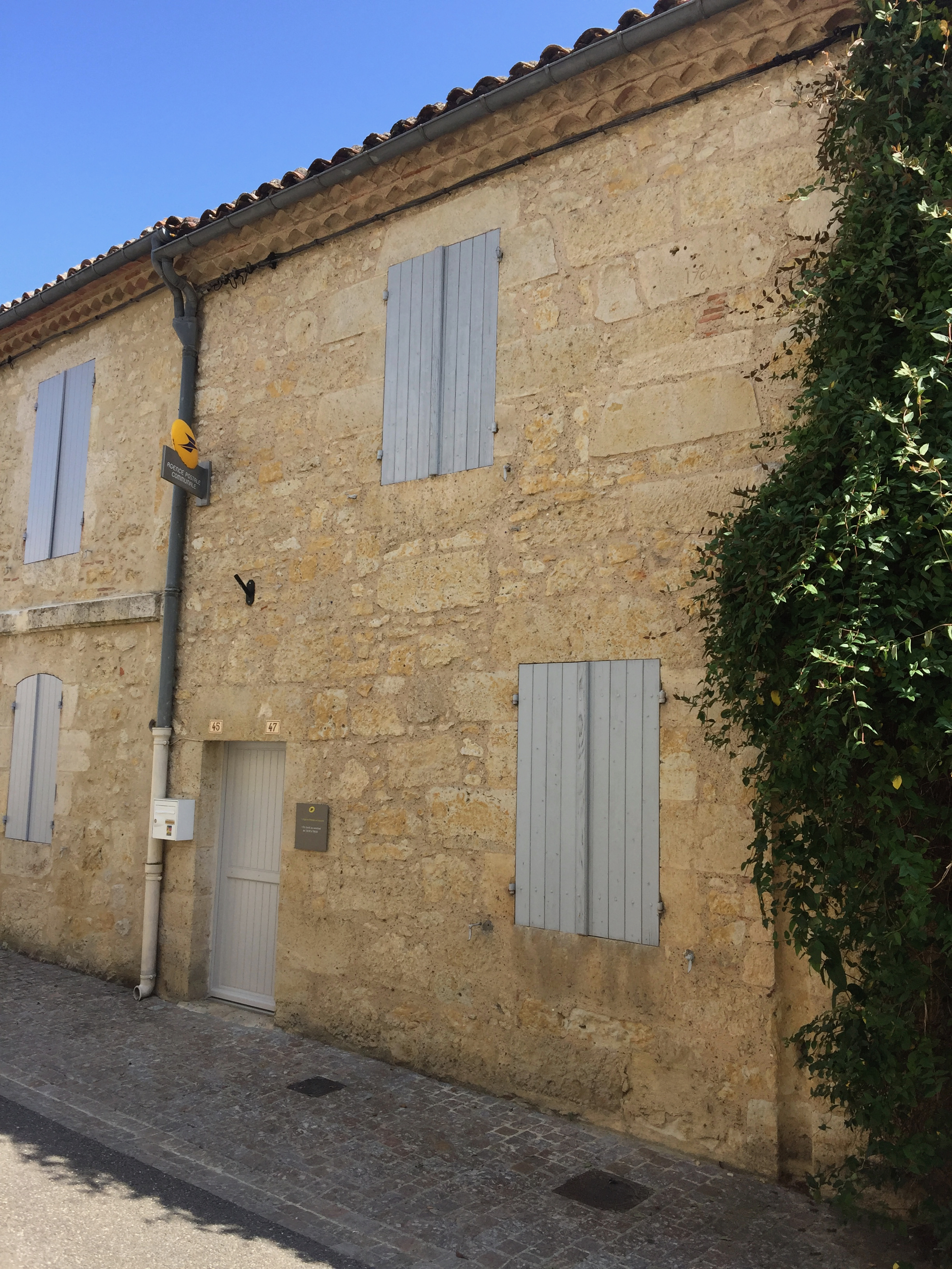 La Poste post office in Terraube, Gers, France in 2019